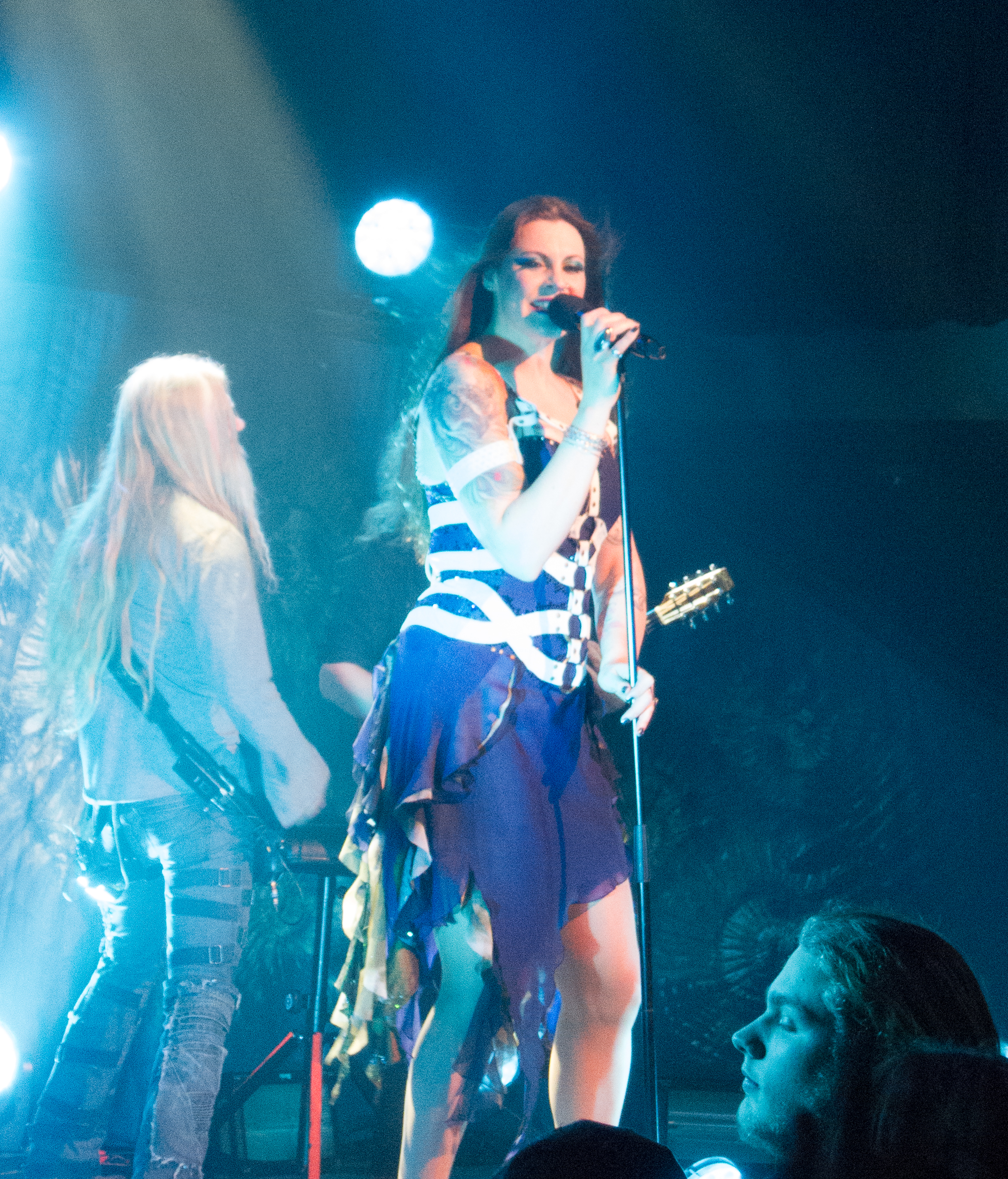 Nightwish performing at the London Music Hall in London, ON